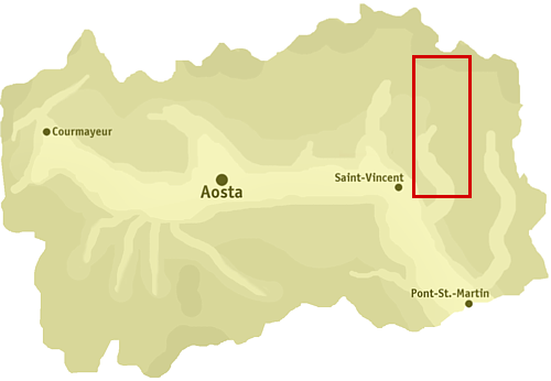 Position of the valley Val d'Ayas